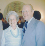 The photo contact sheet, identified as A0747 by the White House Photographic Office (WHPO), is housed at the Gerald R. Ford Presidential Library, a branch of the National Archives and Records Administration (NARA). This file is a 200 dpi photo contact sheet having images from roll of film A0747 of the August 9, 1974 - January 20, 1977 Gerald R. Ford White House Photographic Office Series A0001-A9999 and B0001-B2886 photographs. The date on the photo contact sheet is the date the roll of film was processed, not necessarily the date the photographs were taken. See table below for additional details.